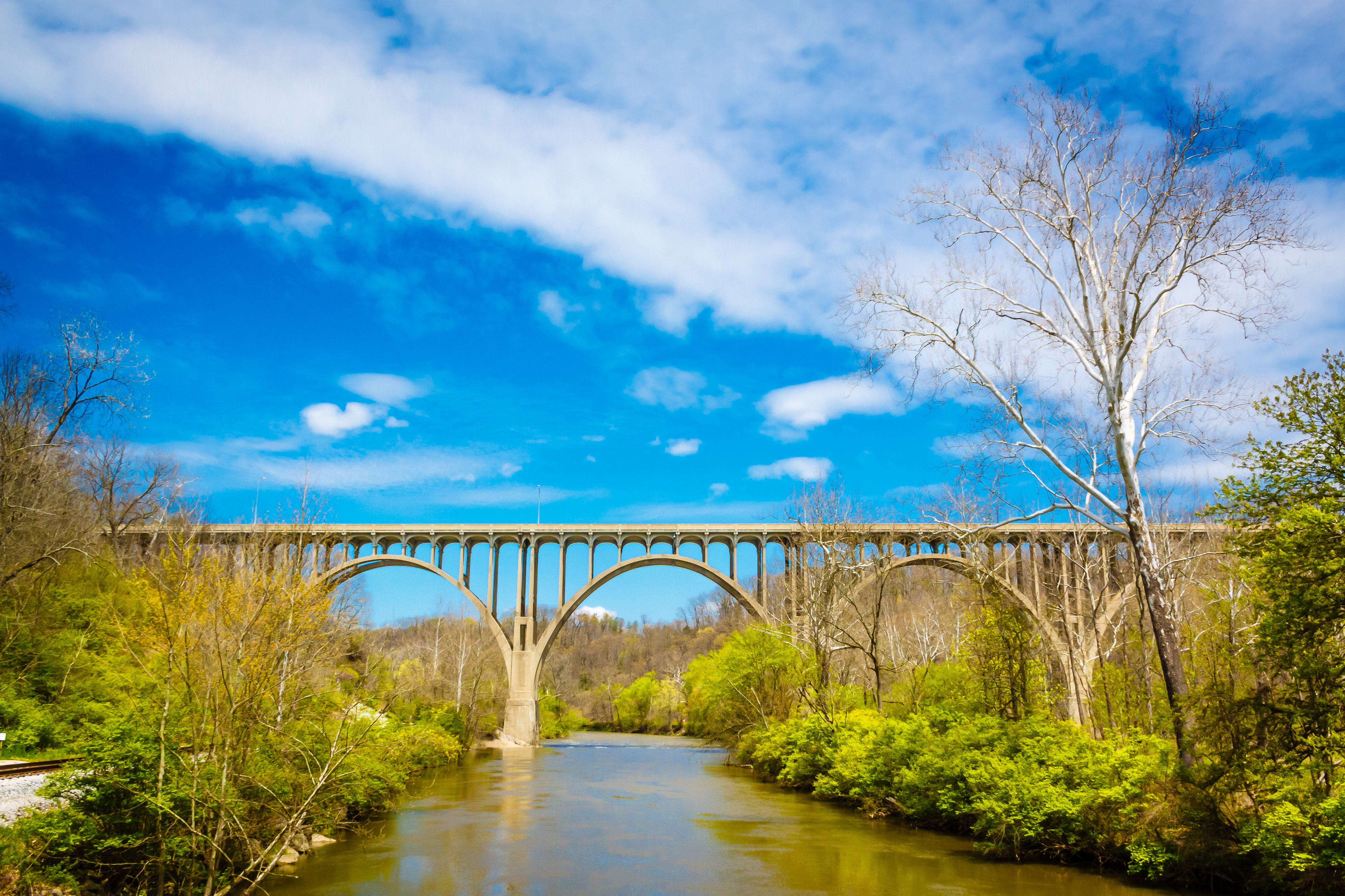 Brecksville-Northfield High Level Bridge, across the Cuyahoga River.